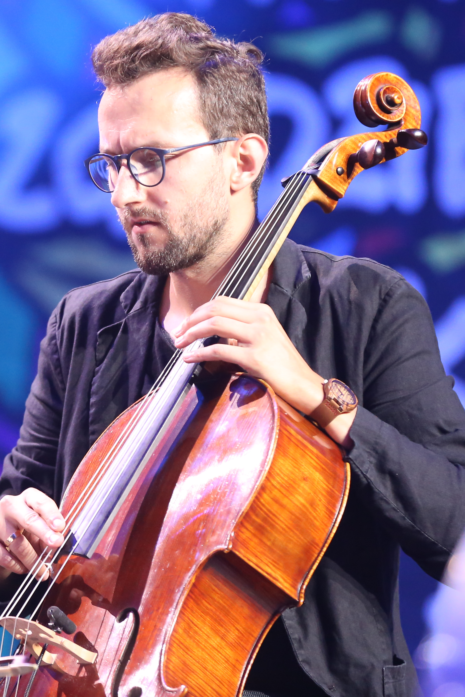 Pol'and'Rock Festival in 2019.